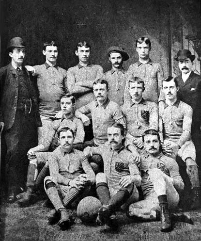 The Blackburn Olympic F.C. team which won the 1883 FA Cup Final. Men photgraphed are, fltr (standing): W. Bramham (secretary), G. Wilson, T. Dewhurst, T. Hacking, J.T. Ward, A. Astley (treasurer); (middle): J. Costley, J. Hunter, J. Yates, W. Astley; (down): T. Gibson, A. Warburton (c), A. Matthews.